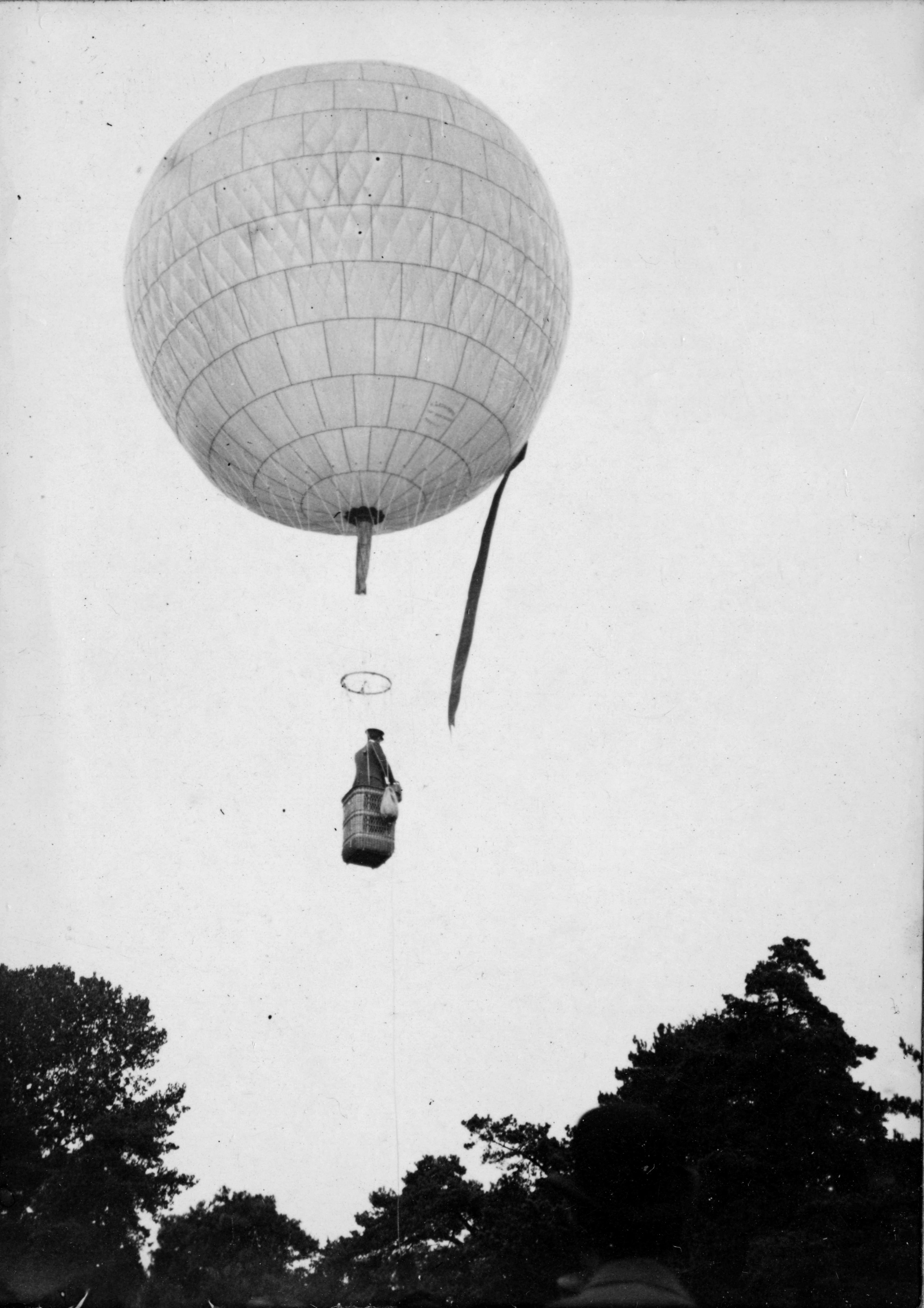 Alberto Santos Dumont ascending in the "pocket-sized" gondola of his free spherical hydrogene balloon Brazil on July 4, 1898 from the ground of the Jardin d'Acclimatation, Bois de Boulogne, Paris, France.